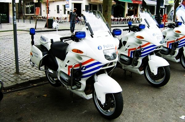 A BMW R 1100 RT Federal Police motorcycle. Article about police cars.